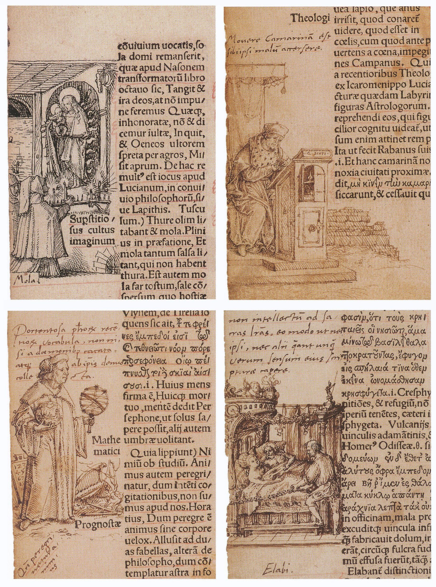 Four Marginal Drawings in a copy of "The Praise of Folly" by Erasmus of Rotterdam. Pen and black Indian ink (no. 54) or black ink oxidised to brown, Kunstmuseum Basel. Two Women Dedicating Candles Before an Image of the Virgin (no. 54) A Mathematical Scholar (no. 41) A Theologian (no. 42) Mars and Venus Caught in Bed by Vulcan (no. 43) Hans Holbein and his brother, Ambrosius, drew 82 marginal sketches in the copy of The Praise of Folly owned by classical scholar Oswald Myconius, who planned to show the result to the author, his friend Desiderius Erasmus. They include the first works by Hans Holbein to survive intact. Most of the sketches are by Hans Holbein, whose style and left-handed hatching identify him from Ambrosius, who drew the last of these four sketches. References Buck, Stephanie, Hans Holbein, Cologne: Könemann, 1999, ISBN 3829025831, p. 10. Müller, Christian; Stephan Kemperdick; Maryan Ainsworth; et al, Hans Holbein the Younger: The Basel Years, 1515–1532, Munich: Prestel, 2006, ISBN 9783791335803, pp. 146–57.